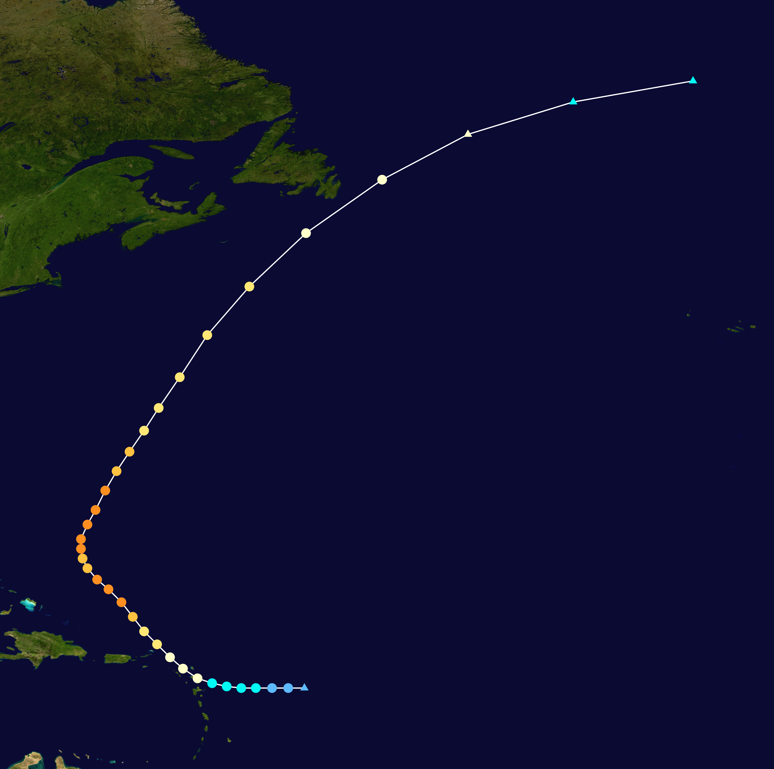 Track map of Hurricane Gonzalo of the 2014 Atlantic hurricane season. The points show the location of the storm at 6-hour intervals. The colour represents the storm's maximum sustained wind speeds as classified in the Saffir–Simpson scale (see below), and the shape of the data points represent the nature of the storm, according to the legend below. Saffir–Simpson scale Tropical depression≤38 mph≤62 km/h Category 3111–129 mph178–208 km/h Tropical storm39–73 mph63–118 km/h Category 4130–156 mph209–251 km/h Category 174–95 mph119–153 km/h Category 5≥157 mph≥252 km/h Category 296–110 mph154–177 km/h Unknown Storm type Tropical cyclone Subtropical cyclone Extratropical cyclone / Remnant low / Tropical disturbance / Monsoon depression